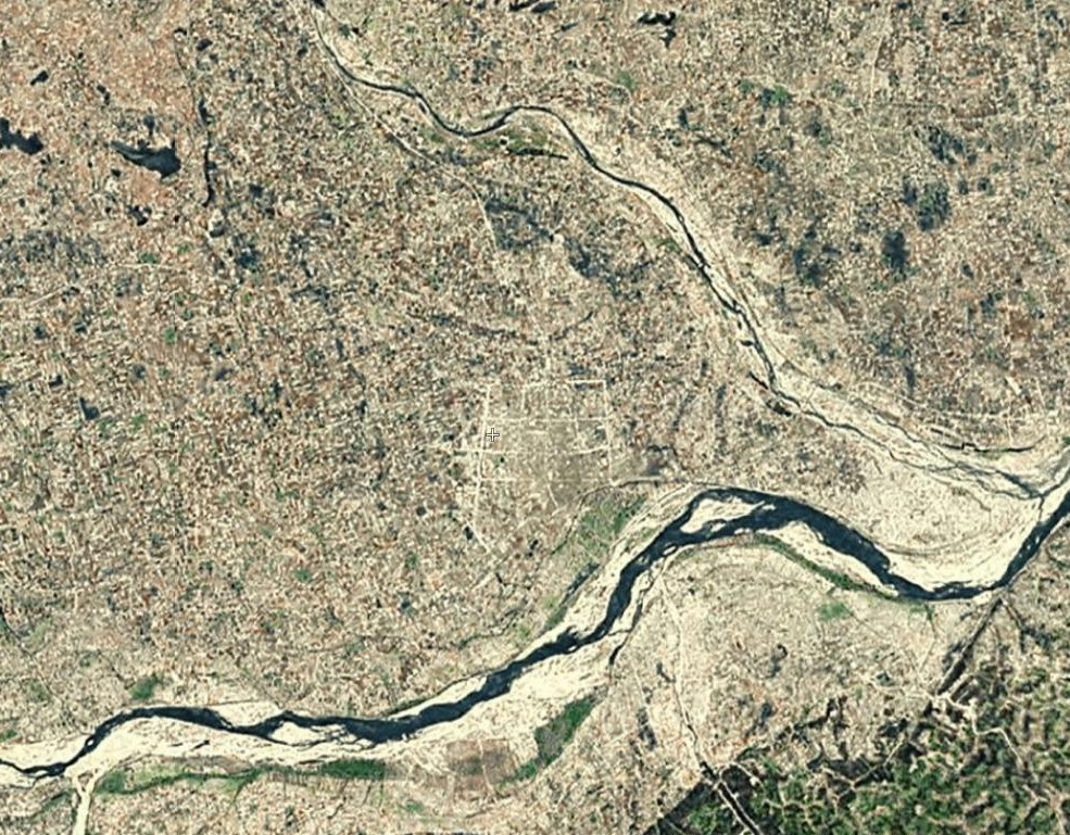 Satellite map of Chenggu County, Hanzhong, Shaanxi Province, China